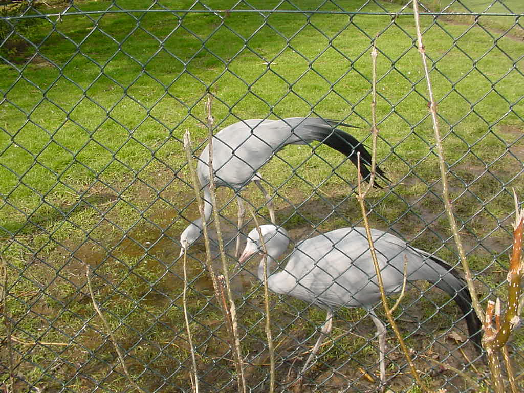 Blue cranes at Chester Zoo